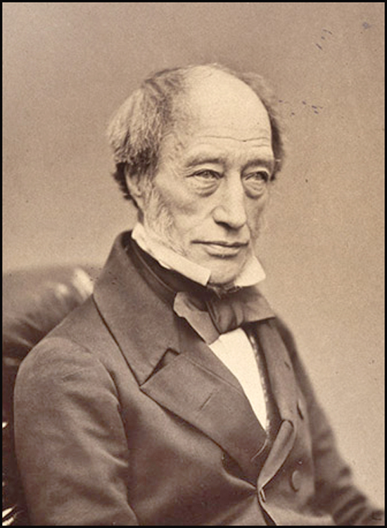 Edward Frederick Teschemacher (1791-1863), british chemist, (biography at „The Mineralogical Record“)